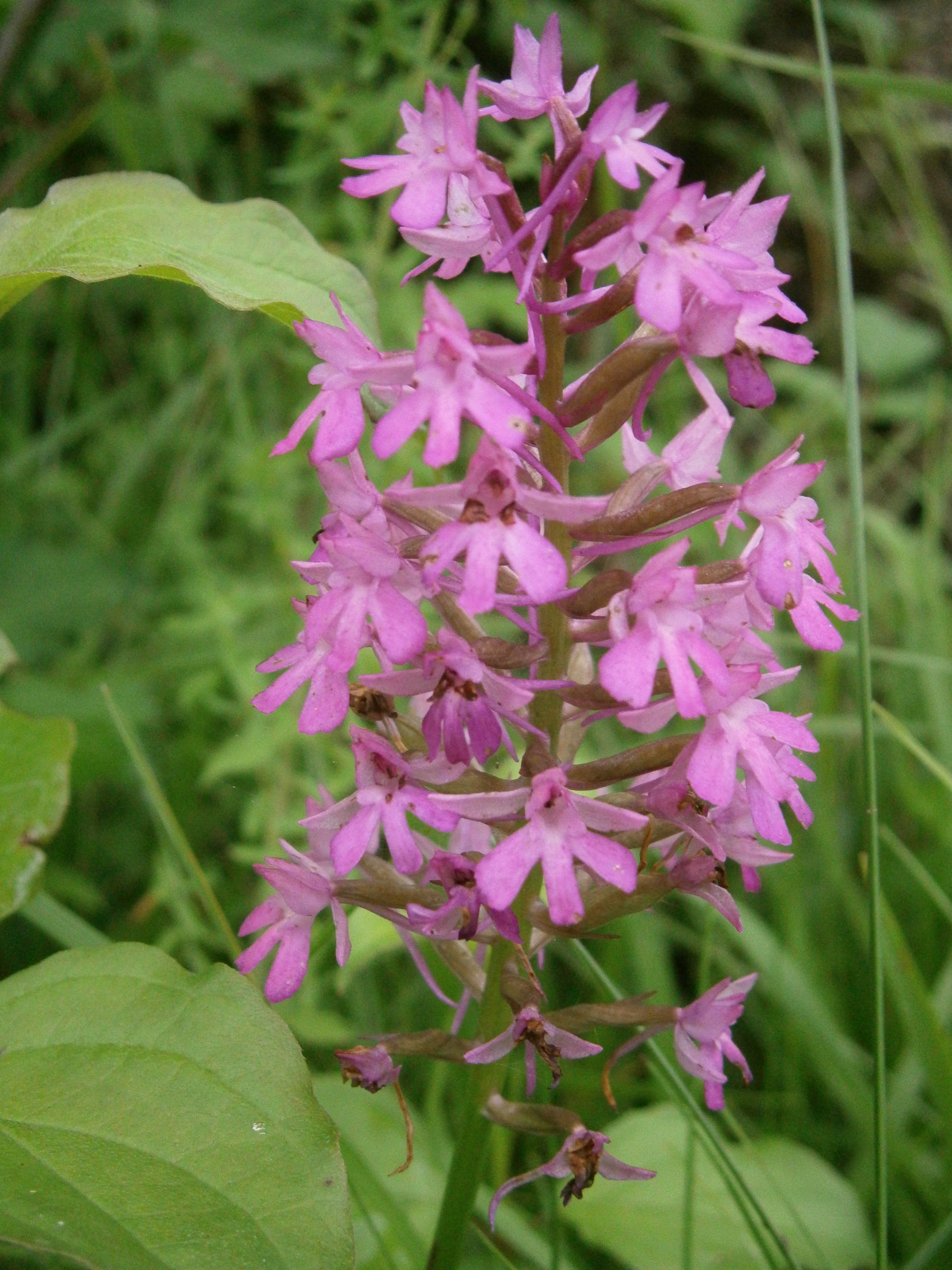 Anacamptis pyramidalis inflorescence